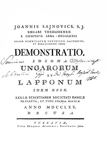 Cover of Demonstratio Idioma Ungarorum et Lapponum idem esse by Hungarian linguist János Sajnovics, published in 1770 (Copenhagen).